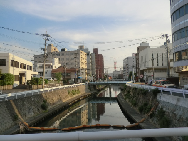 Townscape of Sunatsu in Kitakyushu city,Japan